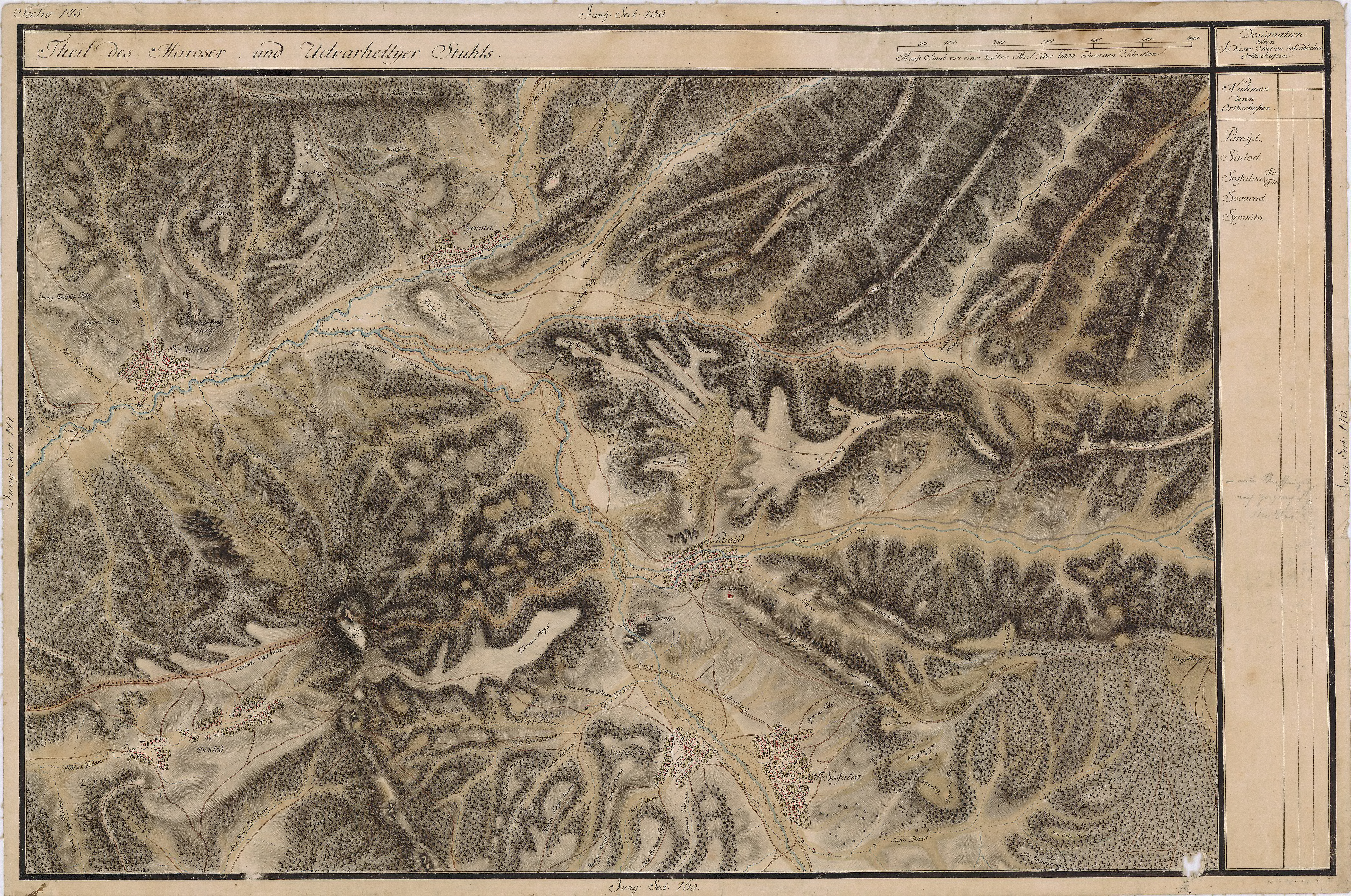 Grand Duchy of Transylvania, 1769-1773. Josephinische Landaufnahme pg.145